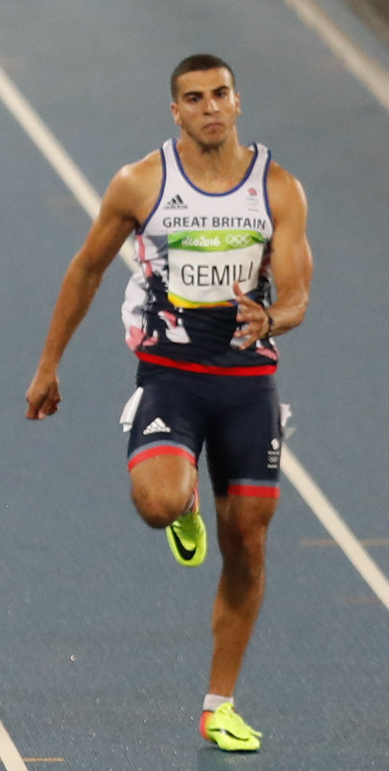 Rio de Janeiro - O Jamaicano Usain Bolt vence prova dos 200m rasos do atletismo e leva medalha de ouro nos Jogos Rio 2016, no Estádio Olímpico (Fernando Frazão/Agência Brasil)